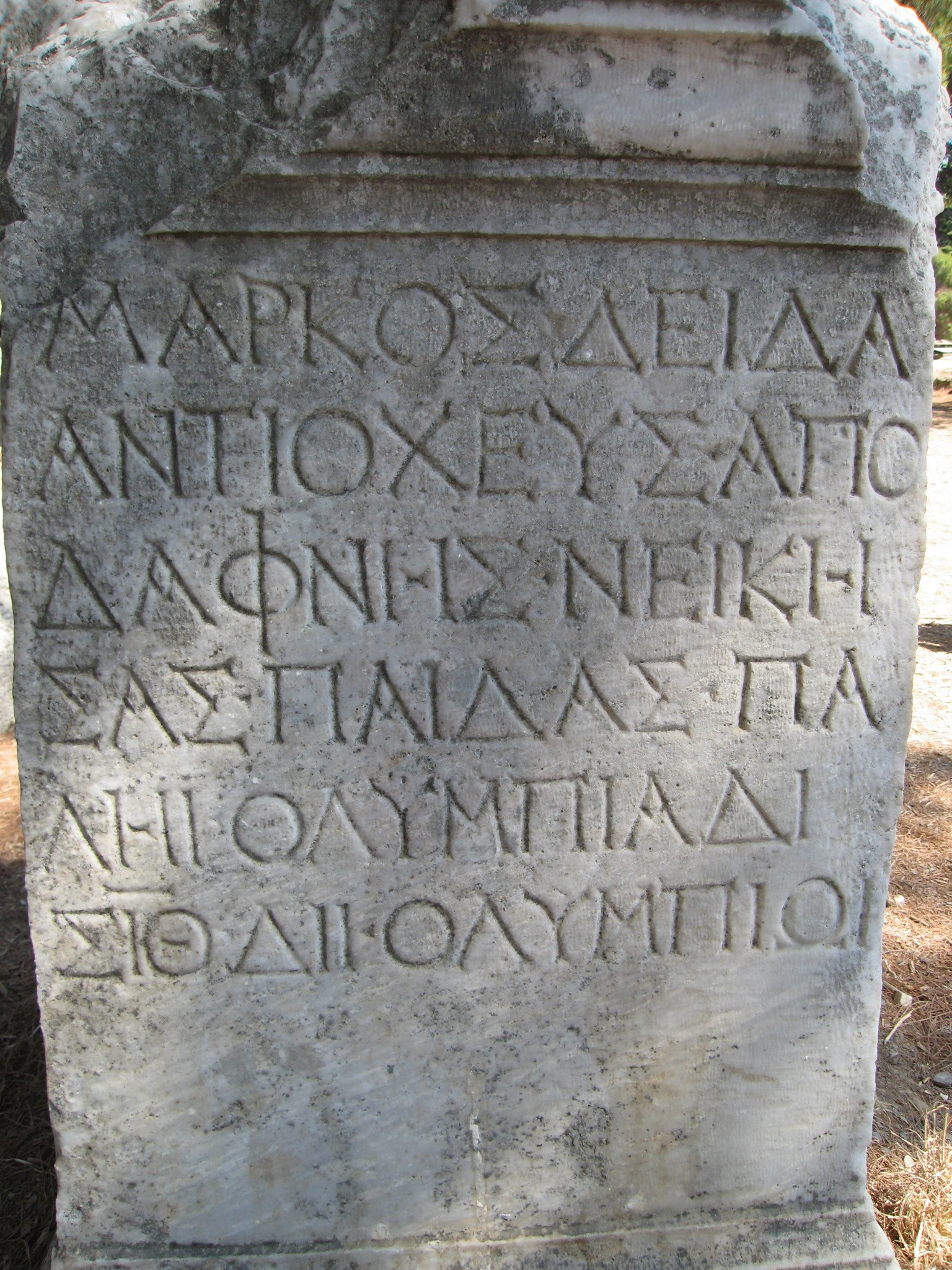 Olympia, Greece